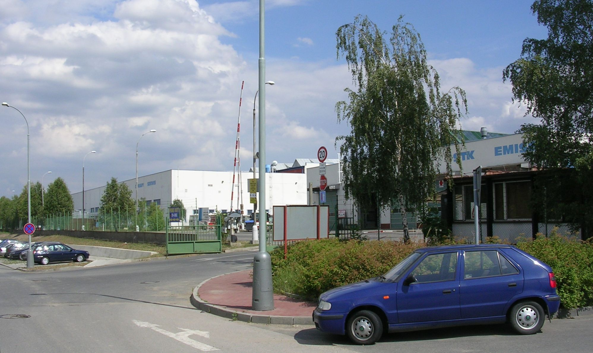 Prague-Hostivař, the Czech Republic. Central Works of Prague Transport Company – Hostivař Bus Depot.